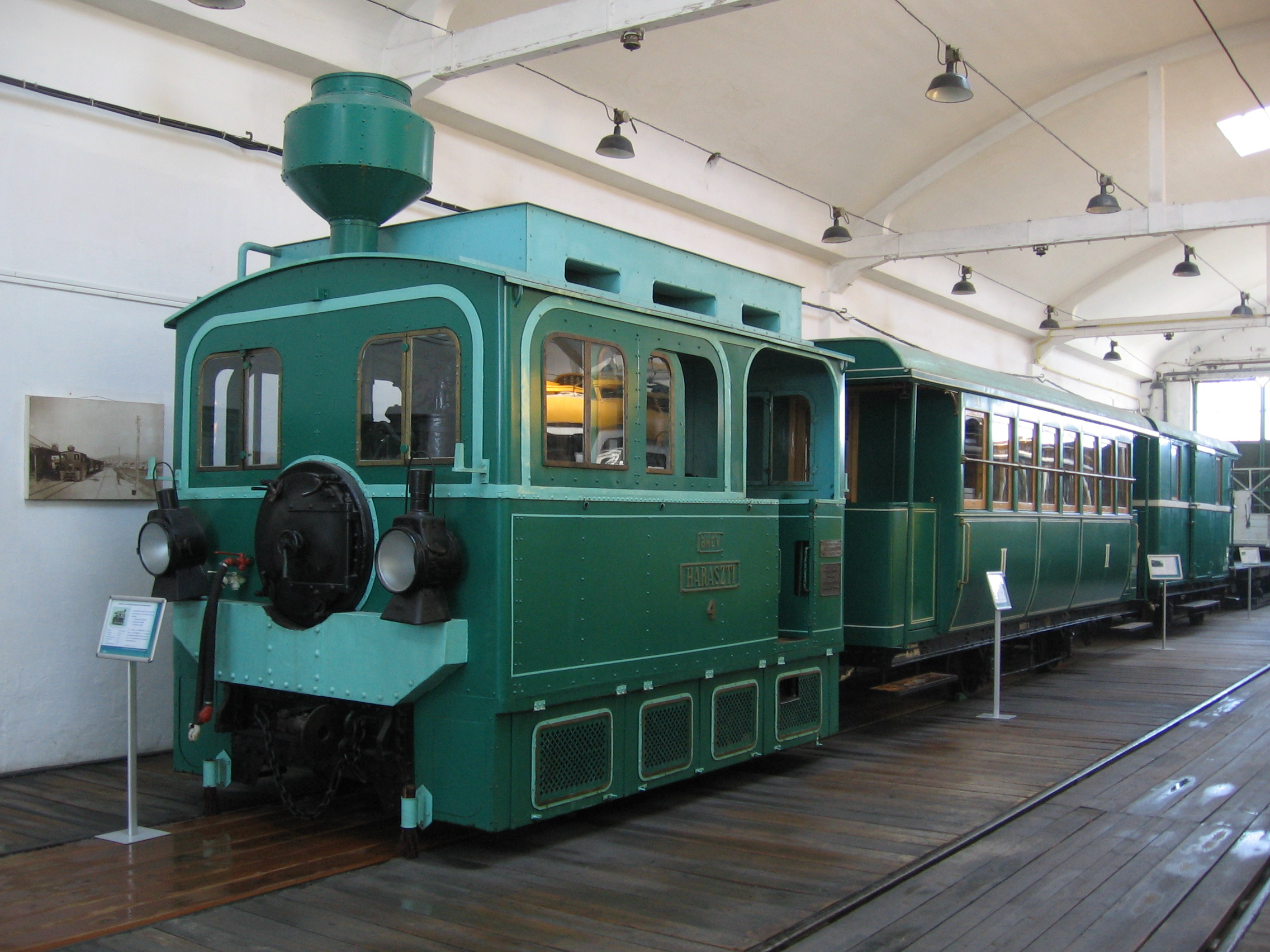 Locomotive No. 4 BHÉV in urban transport museum Szentendre, built 1887 in locomotive works StEG Vienna. Personal car built by Johann Weitzer, Graz 1887, service van Ganz 1888.